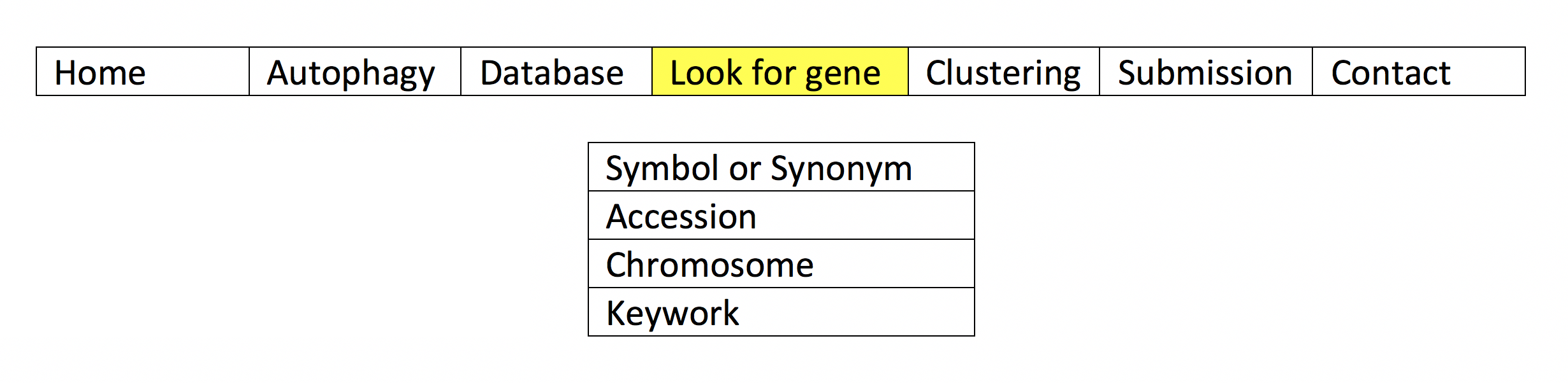 Simplified diagram of use for human autophagy database.